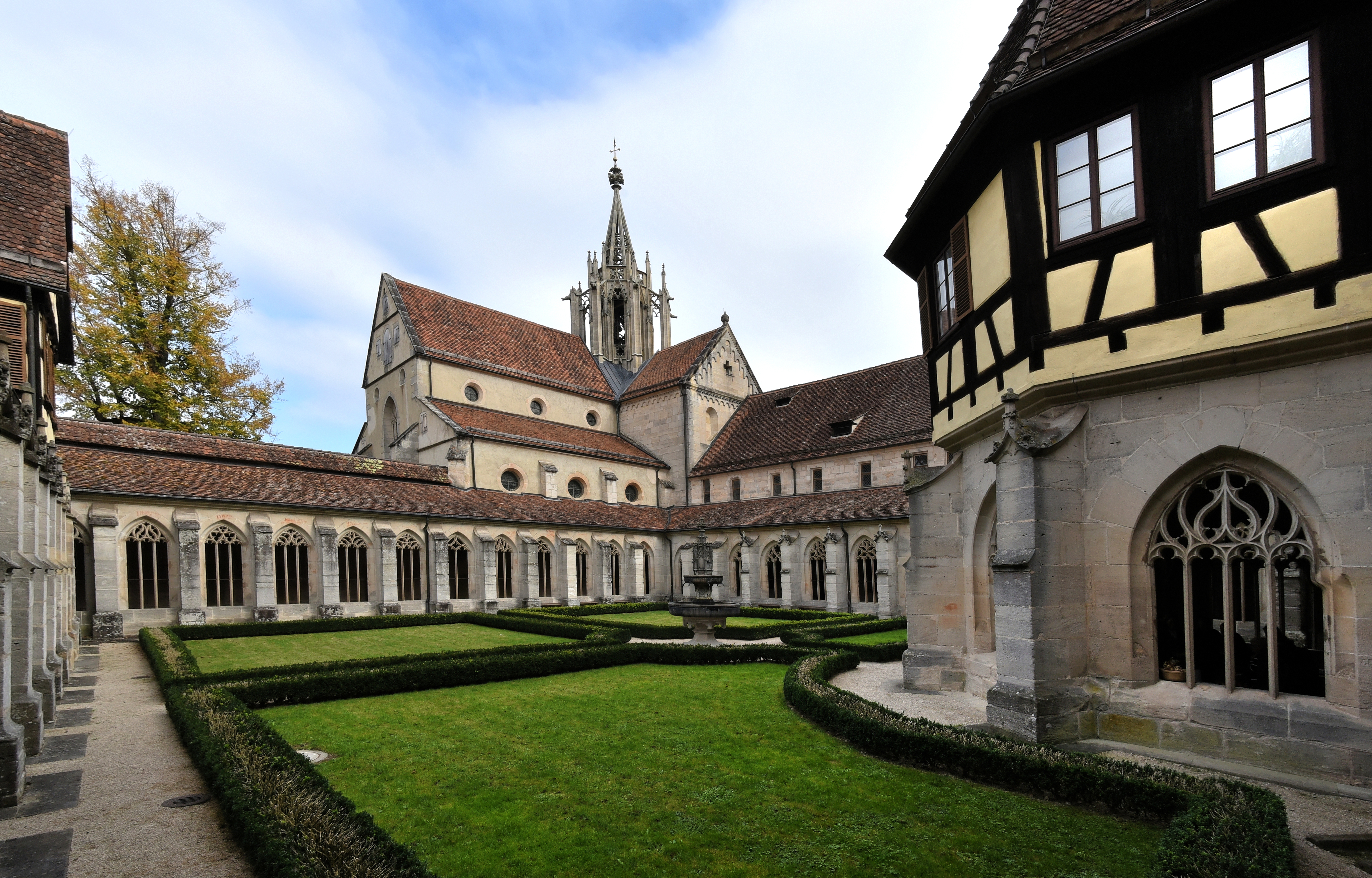 Bebenhausen Abbey founded in 1183 at Tübingen